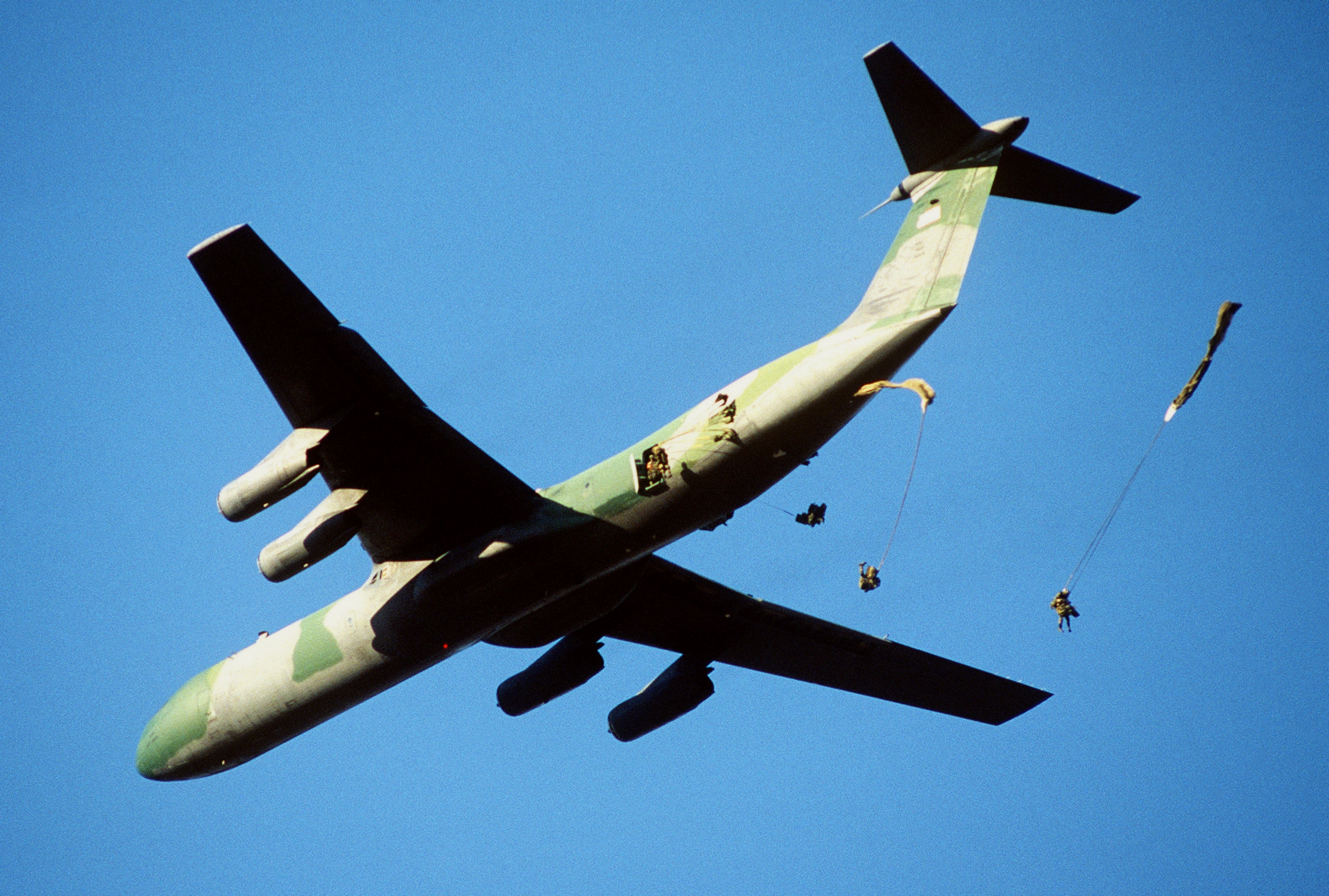 Members of the U.S. Army 82nd Airborne Division jump from a USAF Lockheed C-141B Starlifter aircraft over Honduras on 1 March 1988. U.S. President Ronald Reagan mobilized U.S. exercise task force Dragon/Golden Pheasant, consisting of both the 82nd Airborne Division and the 7th Light Infantry Division, to help discourage Nicaraguan forces from entering Honduras.